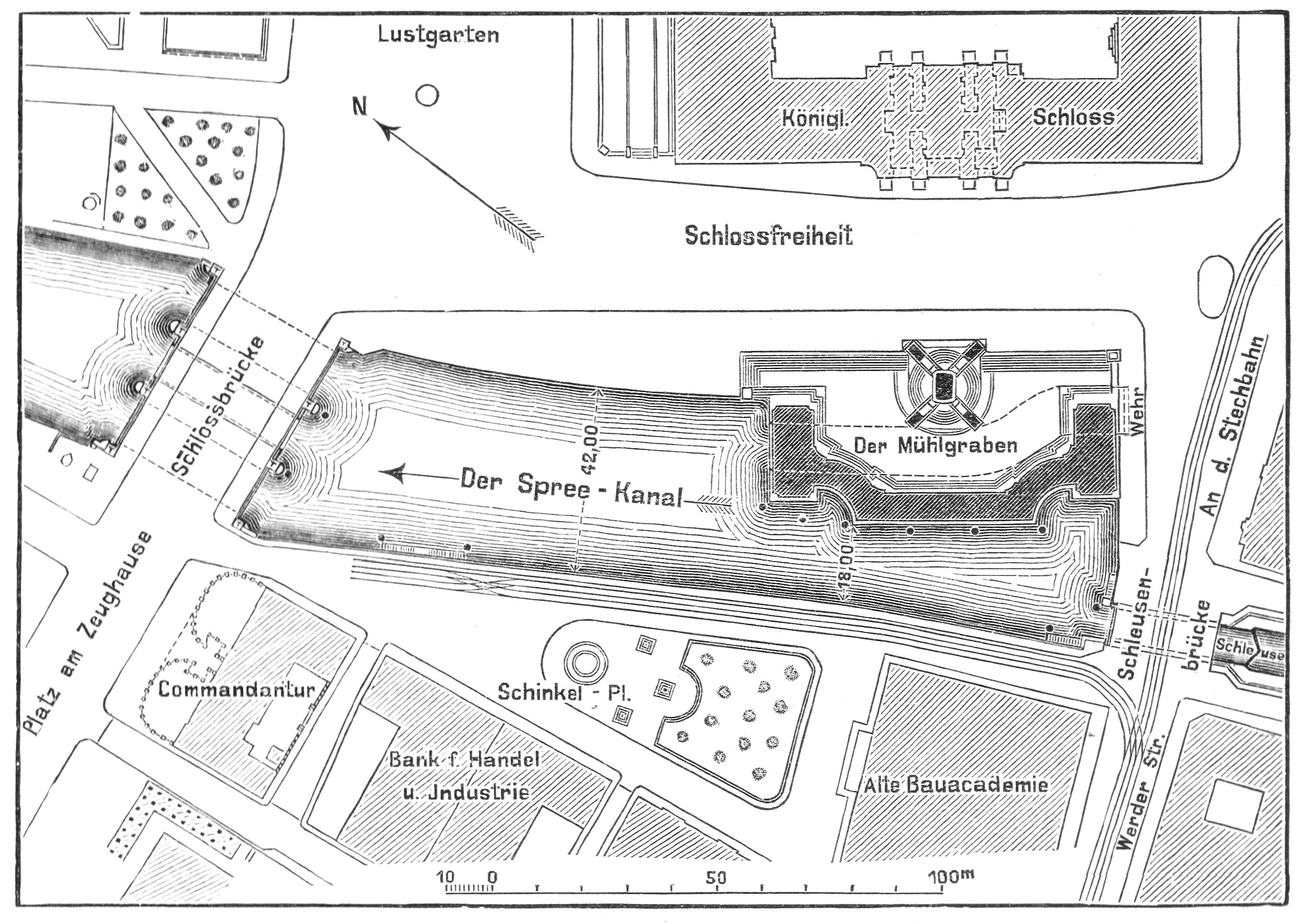 Berlin - Kaiser Wilhelm memorial, situation plan